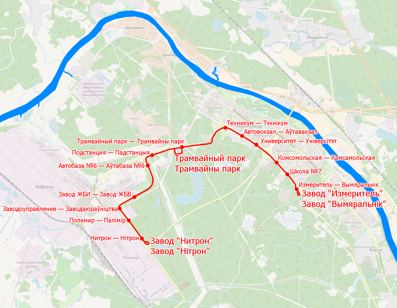 Tram map of Navapolack (Novopolotsk), Belarus. Stations are signed in Russian and Belarusian languages